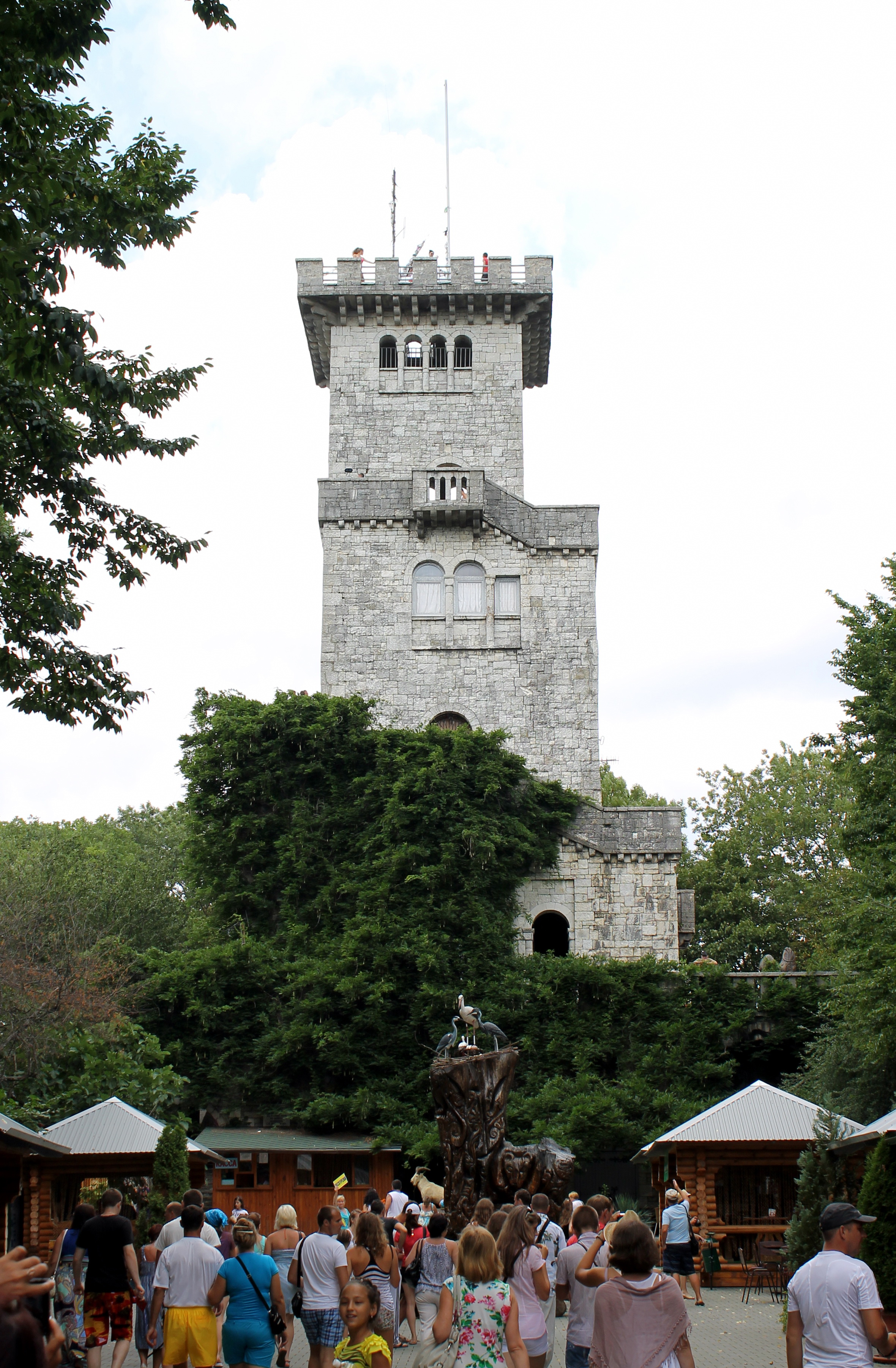 Akhun Observation Tower in Sochi